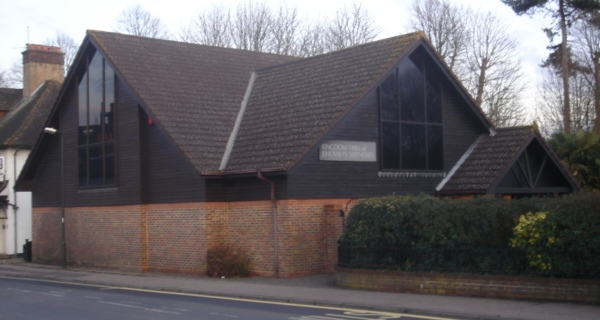 The Jehovah's Witness Kingdom Hall in the Three Bridges neighbourhood of Crawley, West Sussex, England.